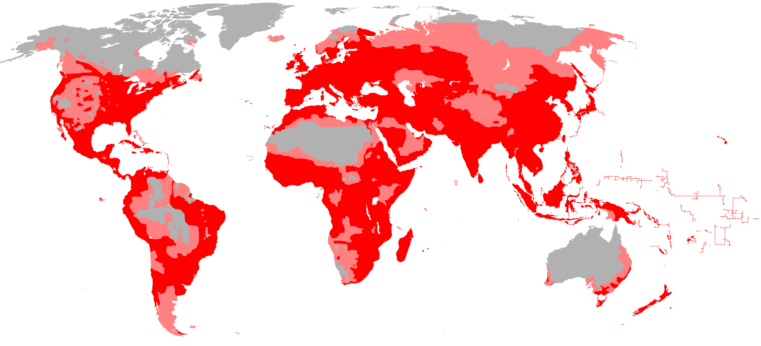 High population index Low population index Uninhabited or extremely low population